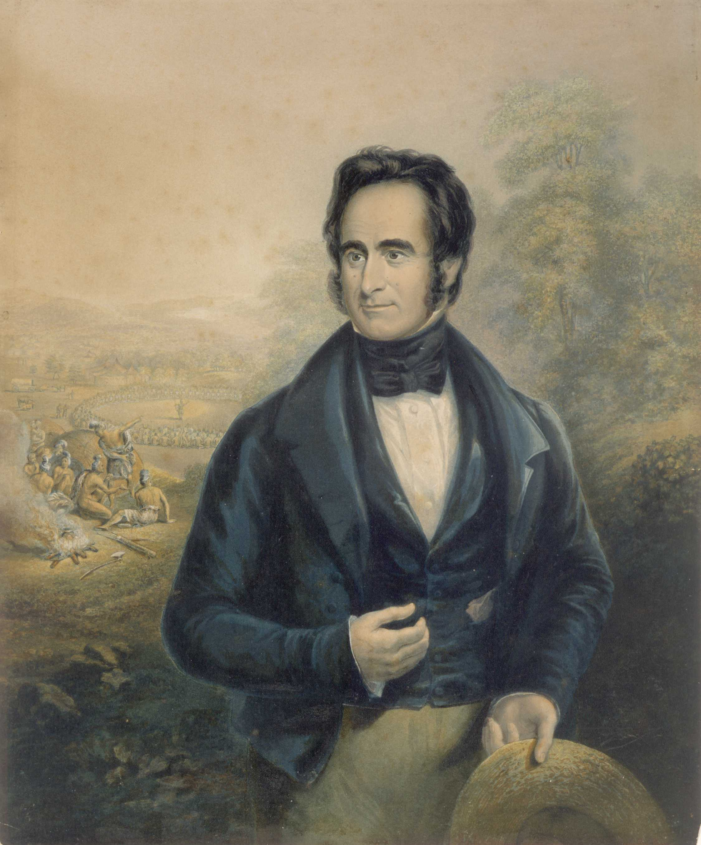 Baxter, George 1804-1867 :[The Revd Robert Moffat. London, George Baxter, 1843]. Reference Number: A-282-018 Catalogue item no. 89 in Courtenay Lewis' catalogue of Baxter prints (all editions use the same numbering).Shows head and torso portrait of Victorian gentleman dressed in jacket, waistcoat and cravat and holding straw hat in right hand (hat partially shown). In right background a group of natives sits by a boiling pot on a fire, and one of their number points to the further distance where a large ring of seated figures listens to an orator (with spear?) in their midst. There is a covered wagon at far right."The scene represents the country on the banks of the Kuruman River, South Africa, with a chief of Bechuana addressing his Parliament respecting the arrival of this laborious missionary". (Courtenay Lewis' "George Baxter, the picture printer" 1924 ed. page 302-303). Key terms: Part of: Baxter, George 1804-1867 :[The Revd Robert Moffat. London, George Baxter, 1843]., Reference Number A-282-018 (1 digitised items) Extent: 1 colour art print(s)Baxter print (coloured oil print), 273 x 222 mm.. Vertical imageSingle art work Historical Notes: The original portrait from life was done during Moffat's visit back to England in 1839-1843, and shows Moffat with a beard - this original is now in the National Portrait Gallery London (NPG 6312) - see AT 13/14/1, 2 October 1996. Moffat has been tidied up and made more elegant for the Baxter print.